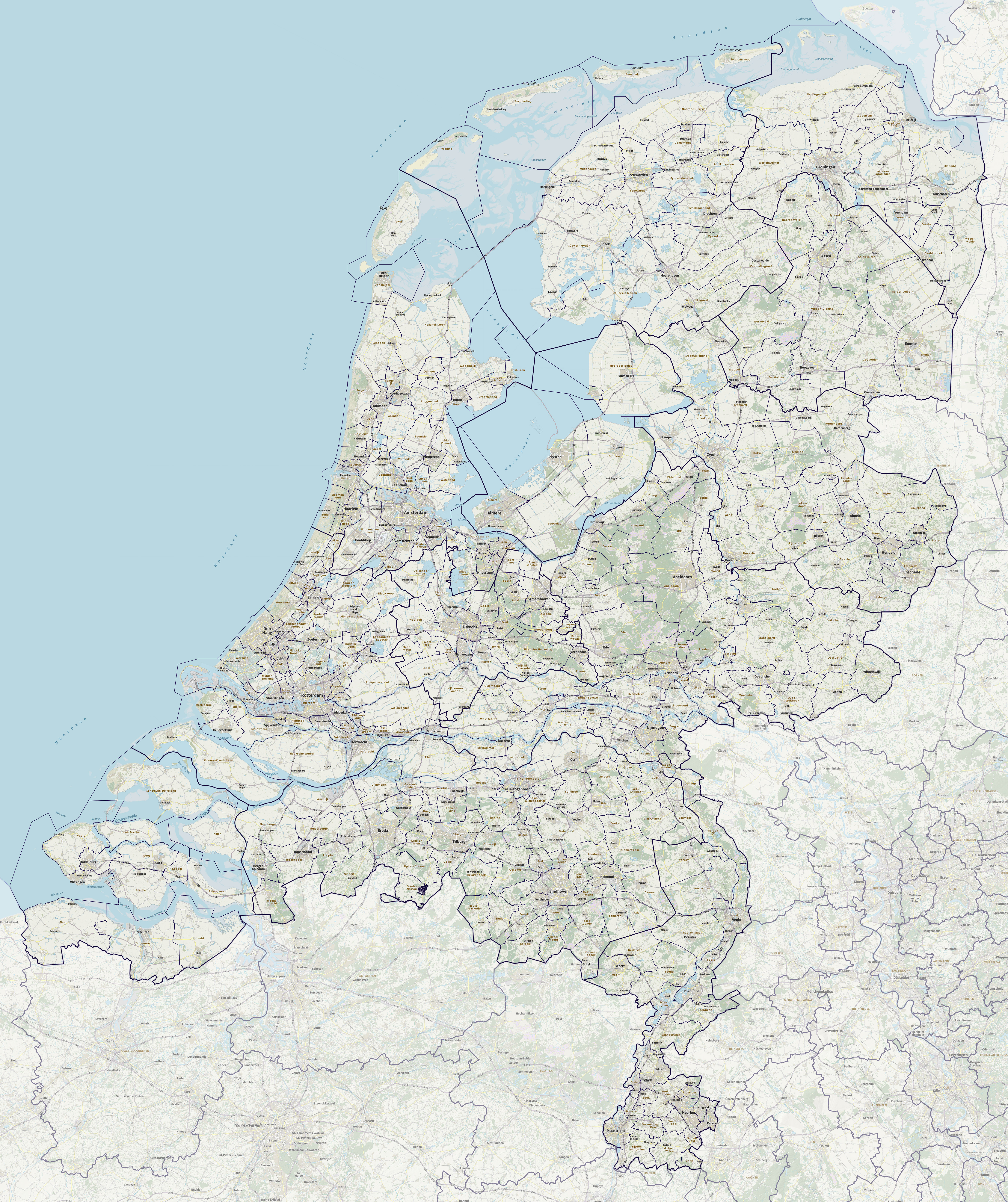 Detailed map of the Dutch municipalities as per 2019, compiled by Jan-Willem van Aalst using open geodata by Kadaster and CBS.